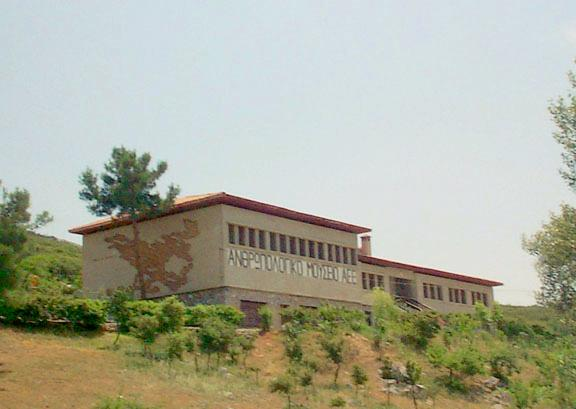 View from outside, image from the Anthropological Museum, Petralona, Central Macedonia, Greece